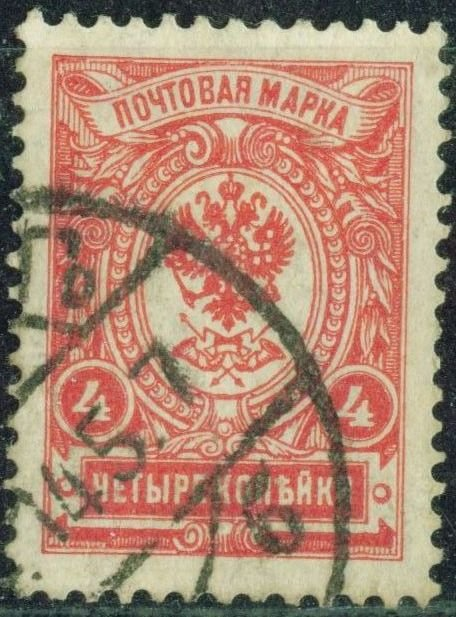 Coat of Arms (post horns with bolts) stamp, Issued on: 1909, Face value: 4 Russian kopek